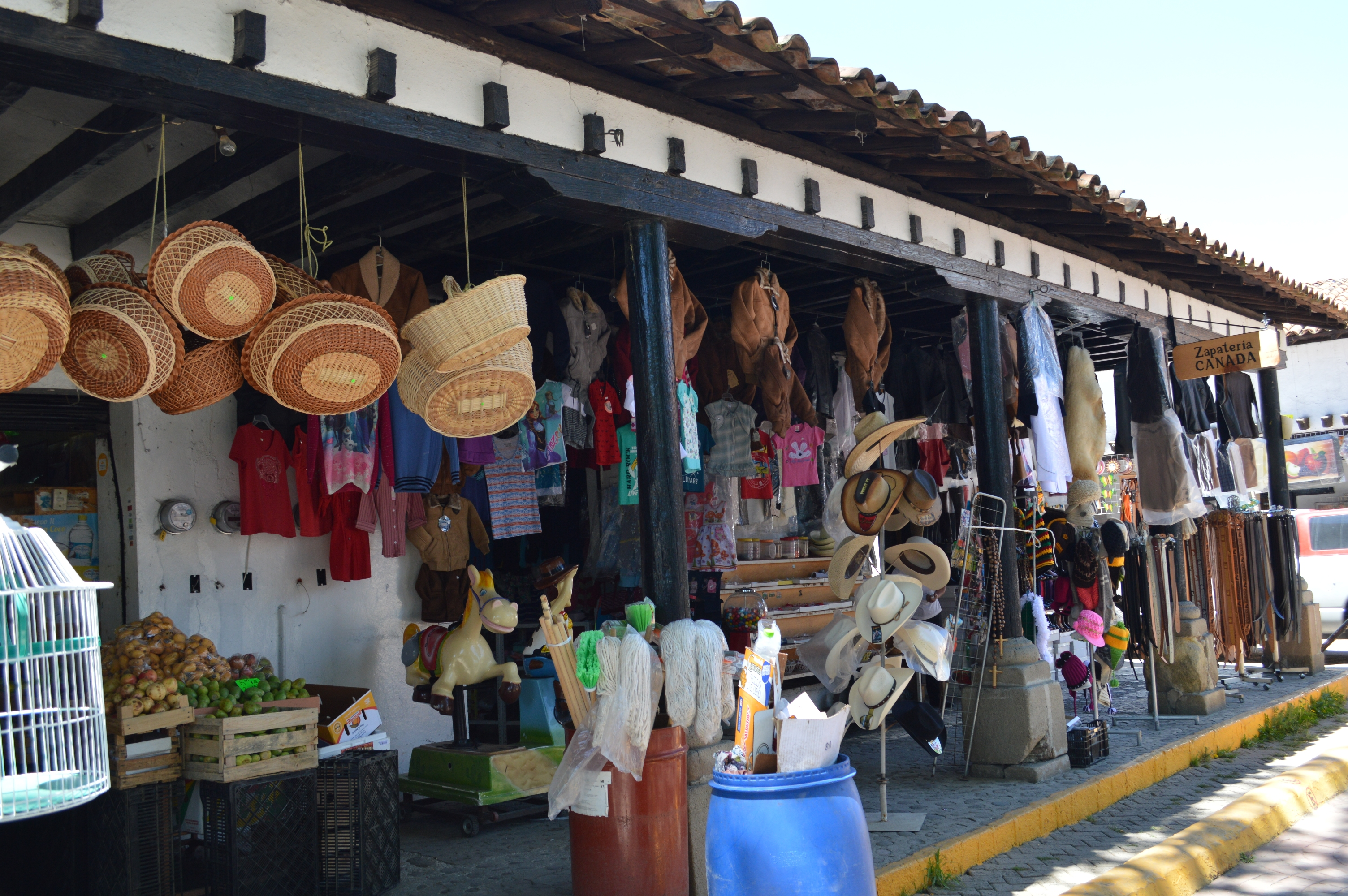 Handcrafts store in Villa del Carbon, State of Mexico